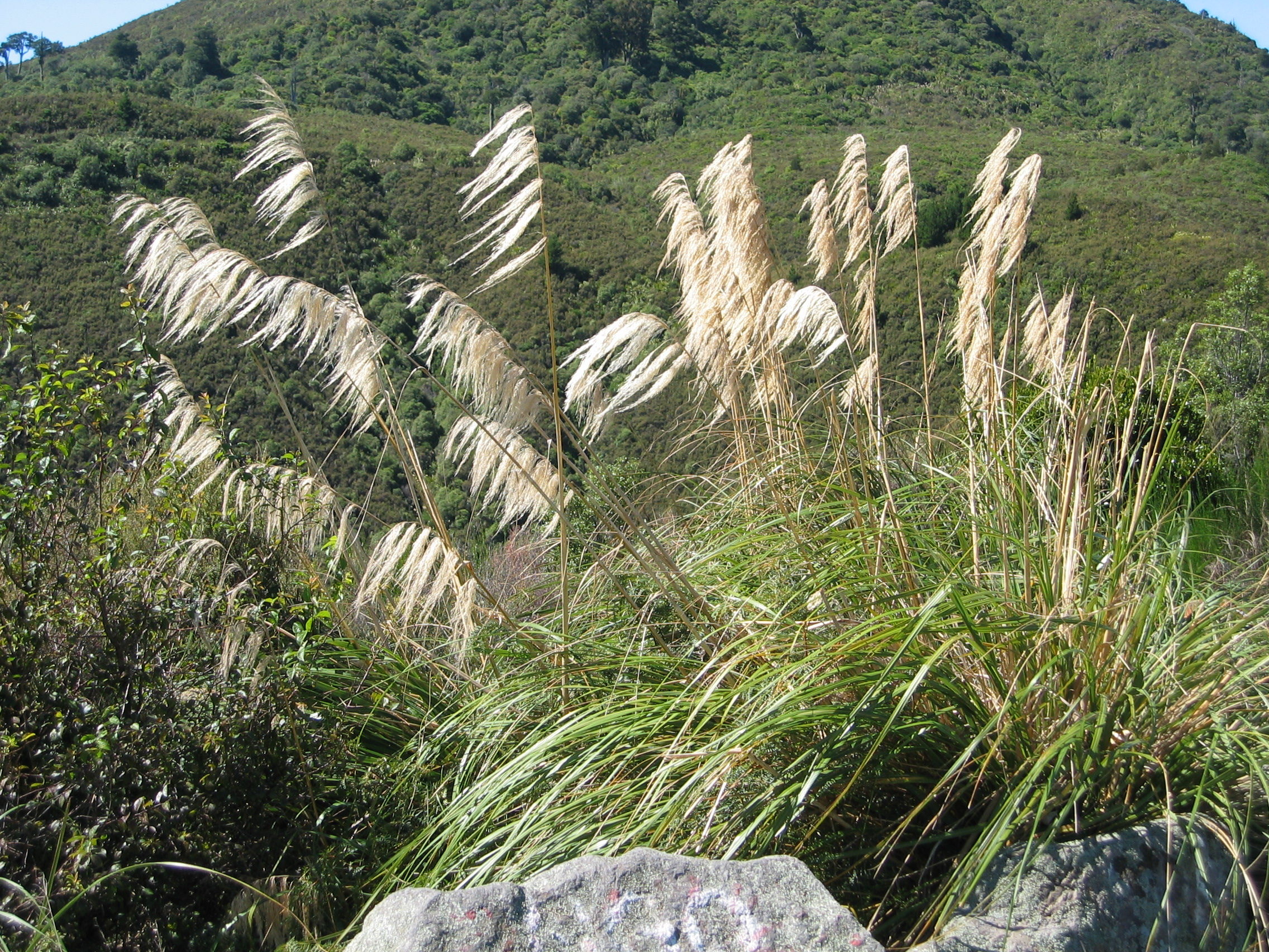 Toetoe bunchgrass growing near Waipunga Falls.